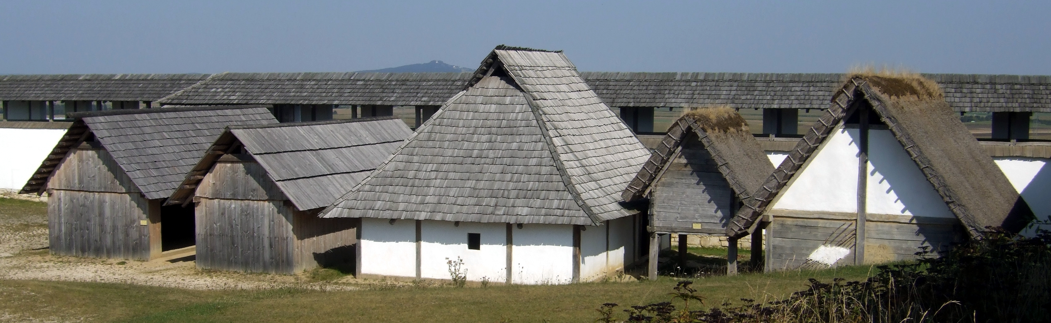 Heuneburg Open-air Museum (replicated buildings and clay brick wall)